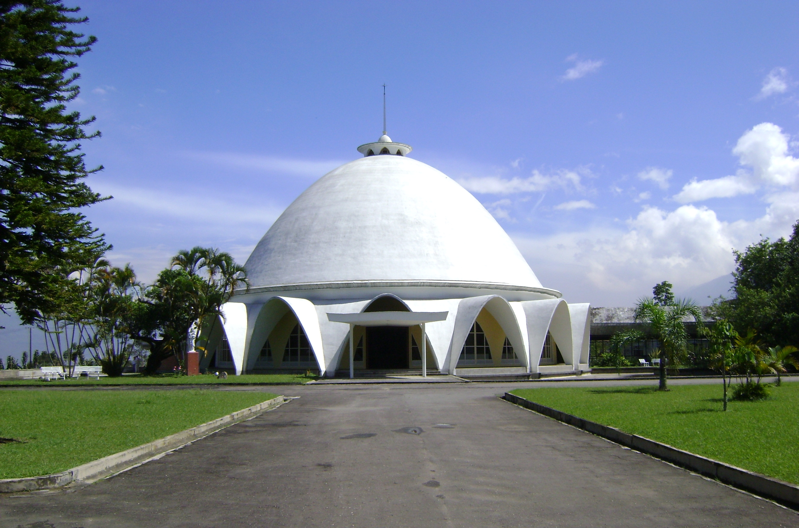 Main chapel of the Seminary of the Archdiocese of Medellín